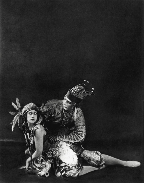 Tamara Karsavina as the Firebird and Michel Fokine as prince Ivan in the 1910 Ballets Russes ballet The Firebird. Picture of the 1912 production.